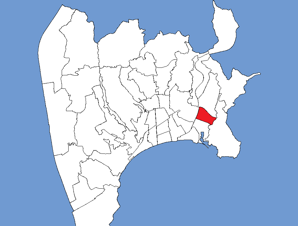 Location of the neighbourhood Riquier in Nice